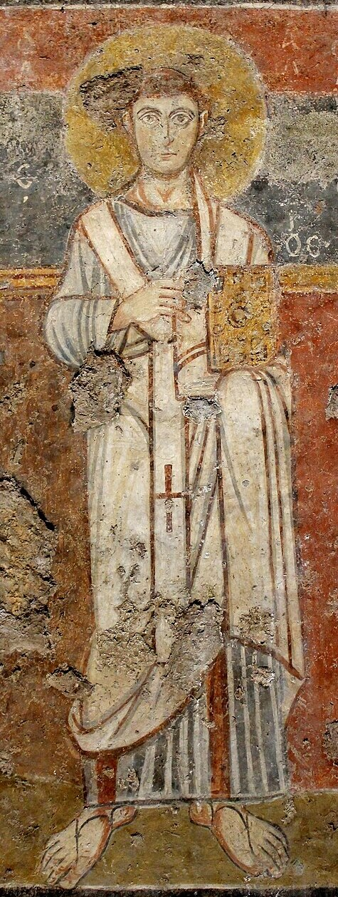 Eighth-century fresco of Saint Pope Alexander I from the Church of Santa Maria Antiqua in the Roman Forum.